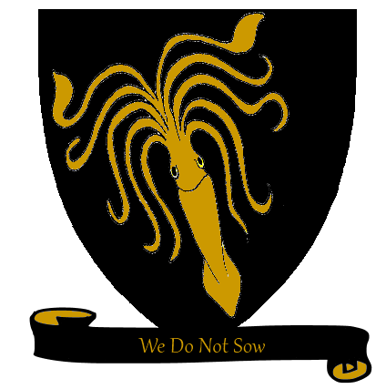 A fictional coat of arms. The coat of arms of House Greyjoy. Shows a golden squid on a black field. Underneath is a scroll bearing a motto: We Do No Sow.